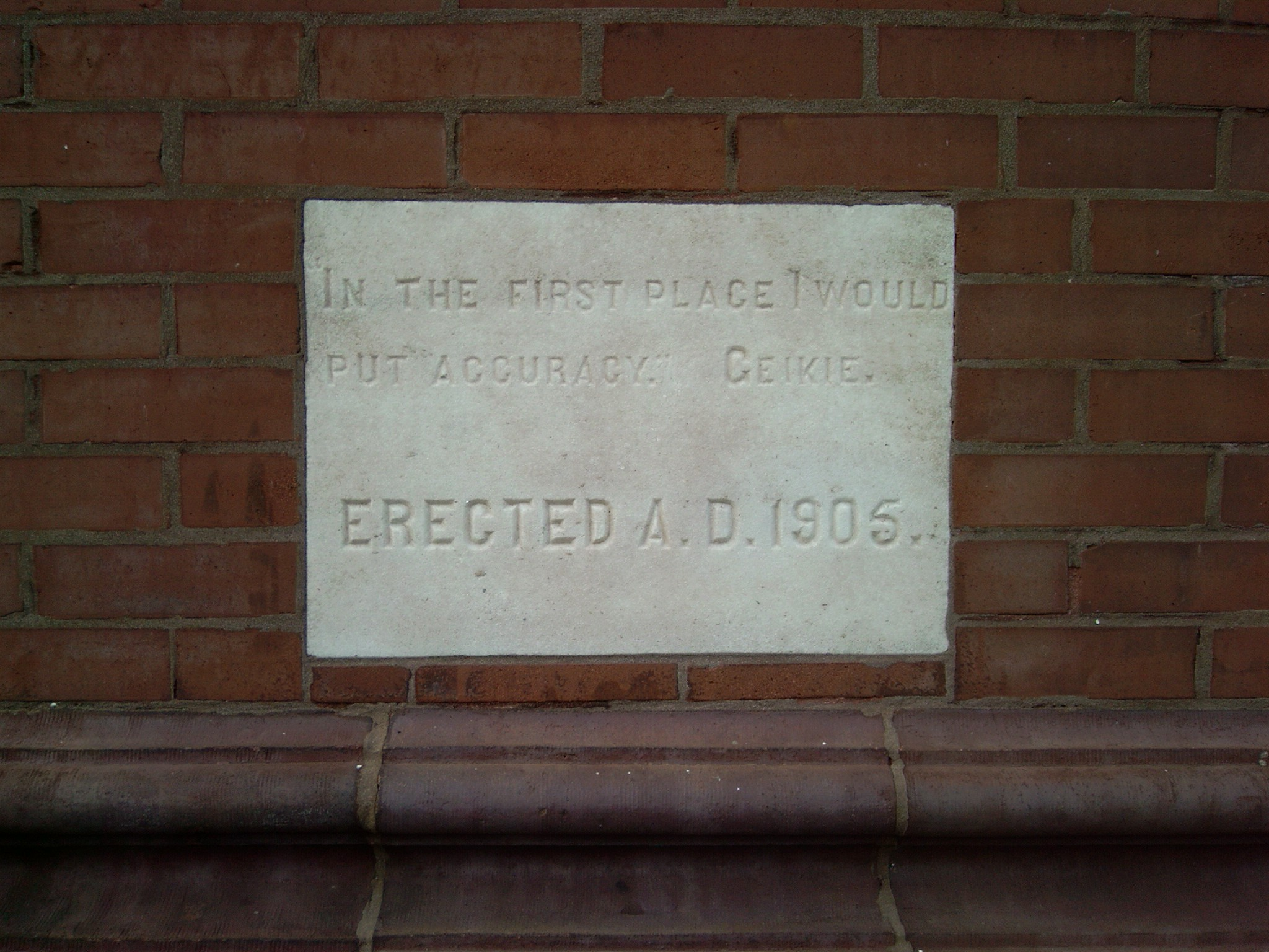 Photo of the cornerstone of the Lyman Hall building, showing a quotation from Sir Archibald Geikie's "Landscape in history and other essays" (1905).